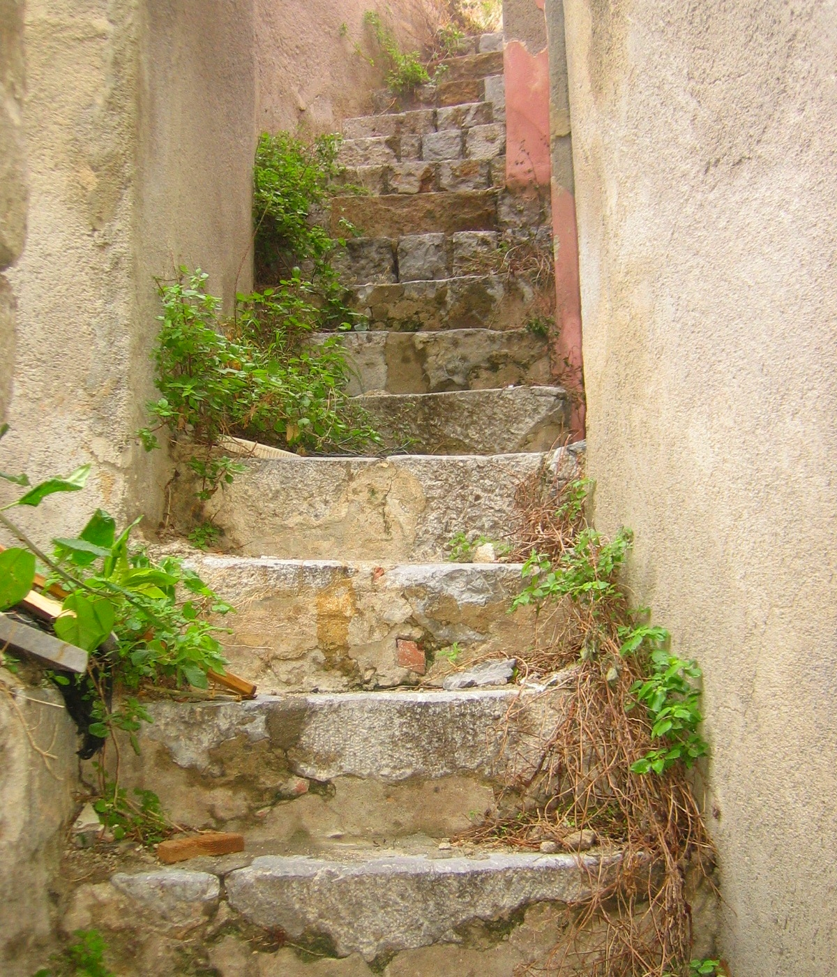 Quiet stairs-street in Cefalù (Sicily, Italy)